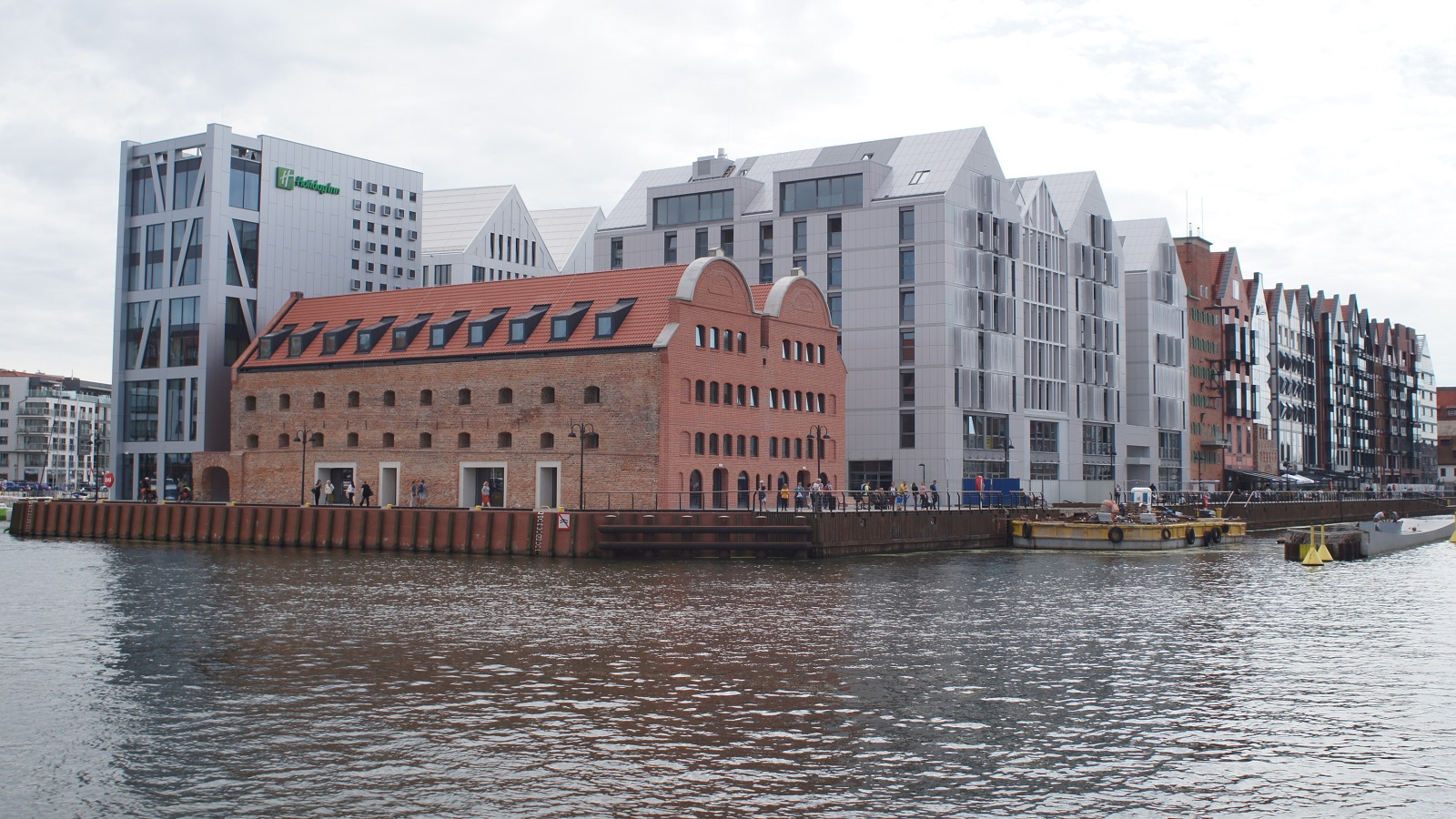 Gdansk, Granary Island, Northern tip, August 2019